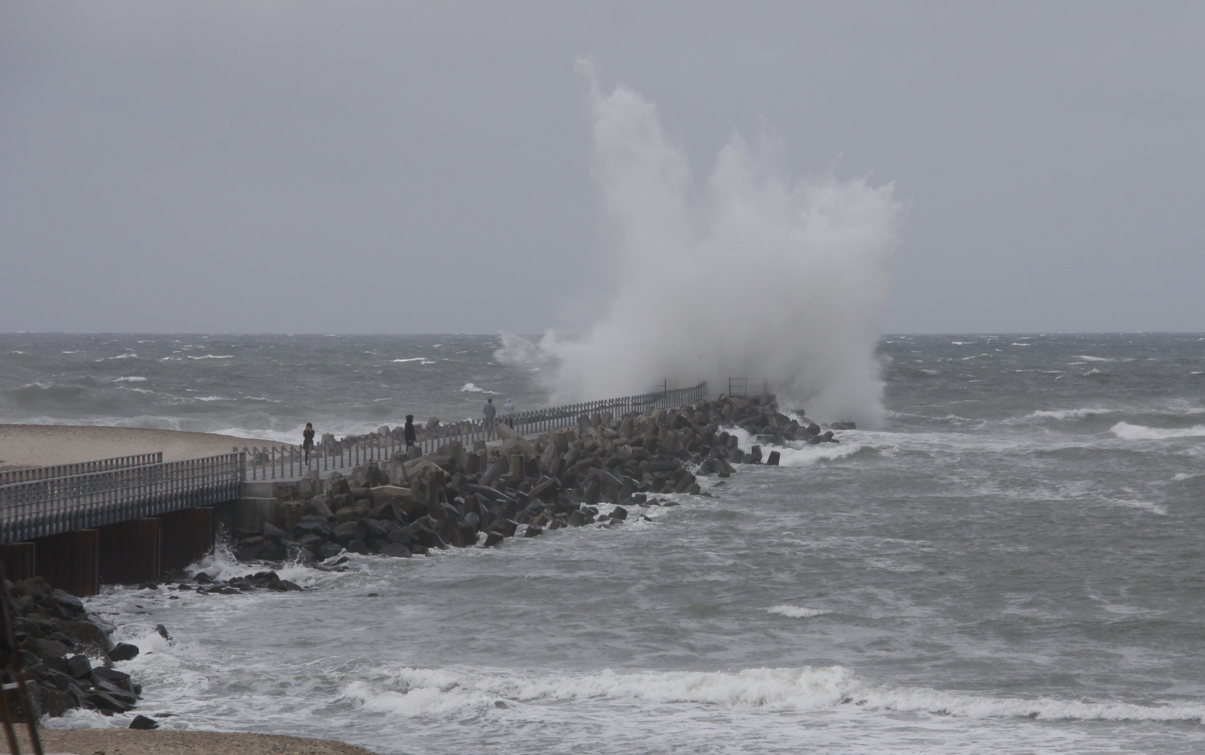 The mole of Vorupør (Denmark) in storm